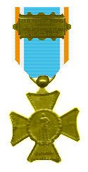 Cross for the Mobilised members of the Amsterdam Voluntary Civil Guard 1923